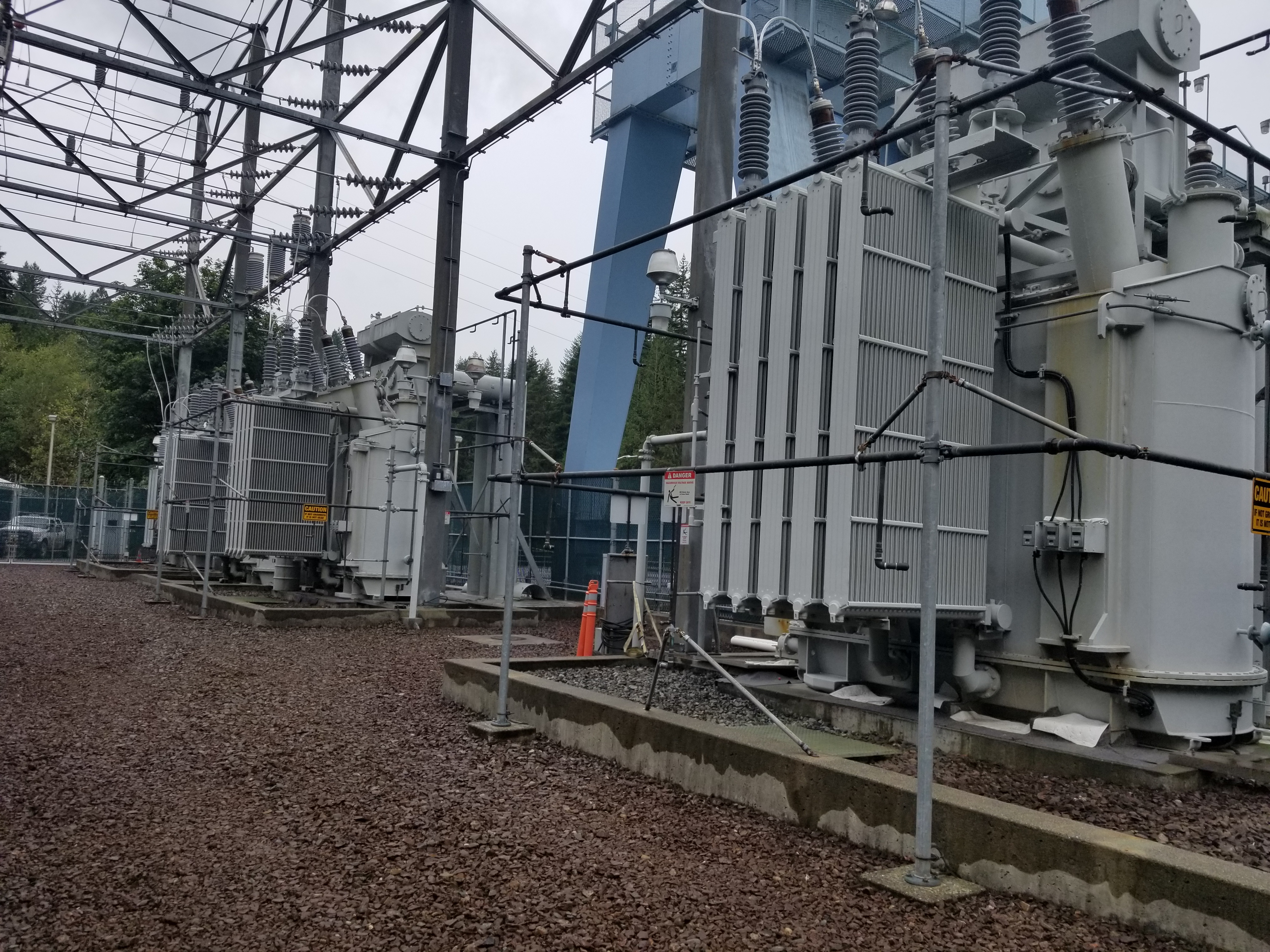 Step-up transformers in the switch-yard at the Jackson Hydroelectric Project, boosting voltage to 115 kV for transmission.